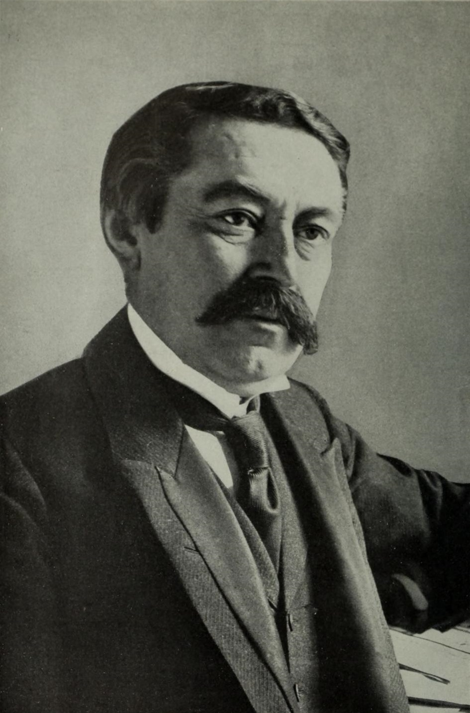 Portrait of Aristide Briand